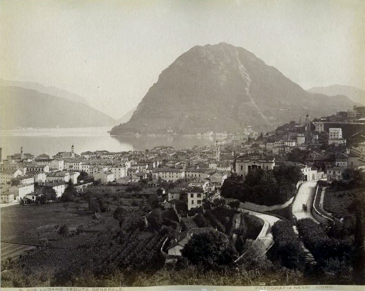 Antonio Nessi (1834-1907) - "Lugano - Panoramic view". Catalogue # 259. 1880s. Today.